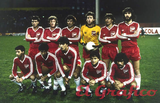 The Argentinos Juniors team that won the 1985 Copa Libertadores after beating Colombian club América de Cali.